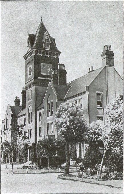 Old photograph of Darenth Park Hospital